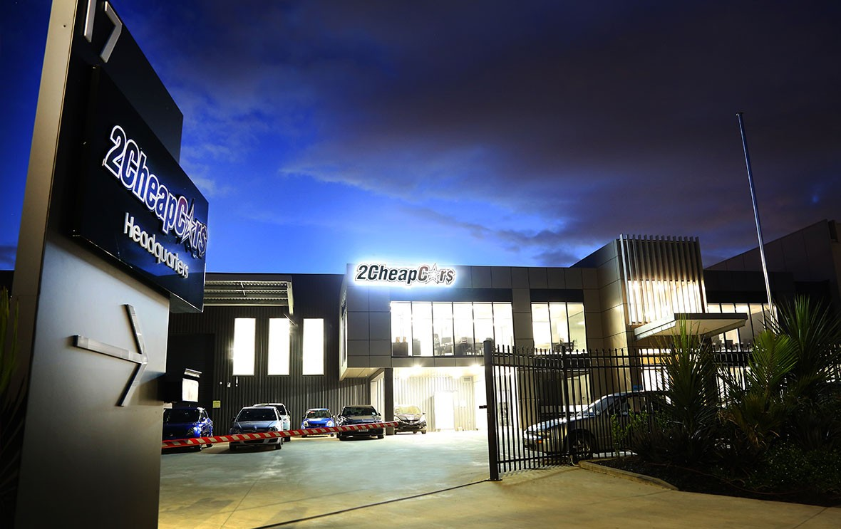 2CheapCars Storefront